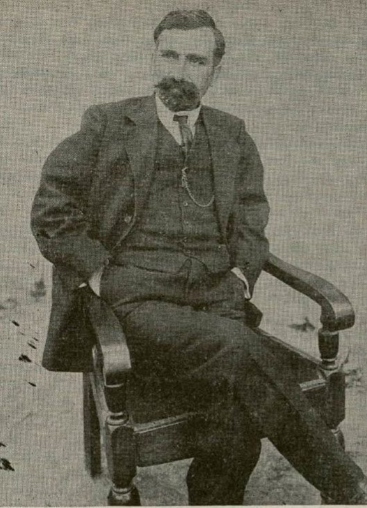 Aram Manukian, the Governor of Armenia.